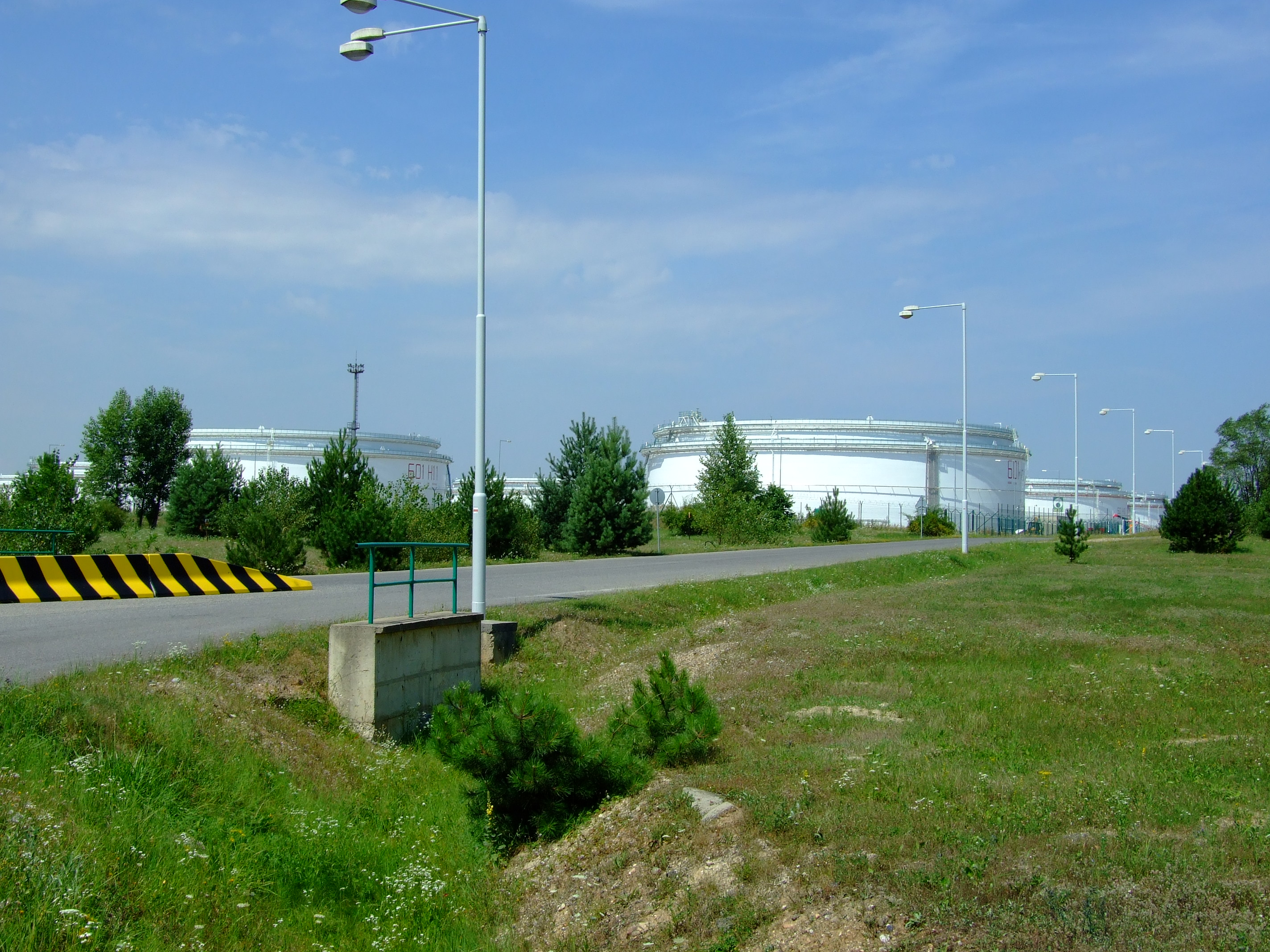 Central oil deposit in Czech Republic near Nelahozeves village and Kralupy nad Vltavou townhelp